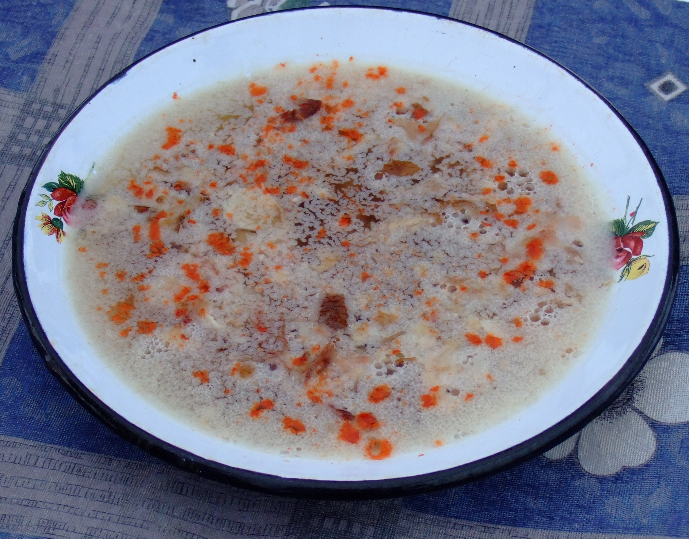 Pihtije with red paprika, a dish from Serbian cuisine, consisting basically of meat and water. Picture taken at Bogojavljenje (Epiphany) in Vlasotince, south-east Serbia. According to Serbian tradition pihtije are made for this religious Christian feast day.